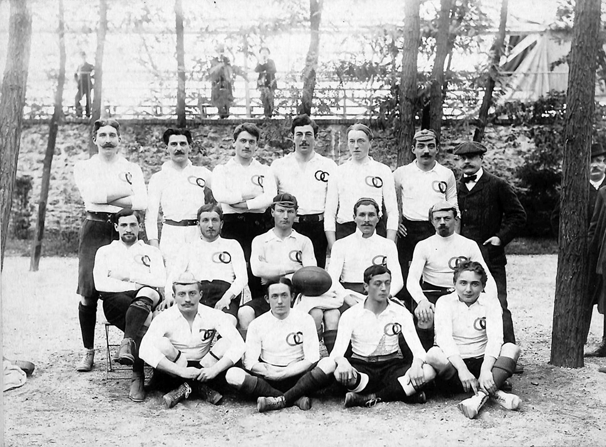 Team of France that played Great Britain